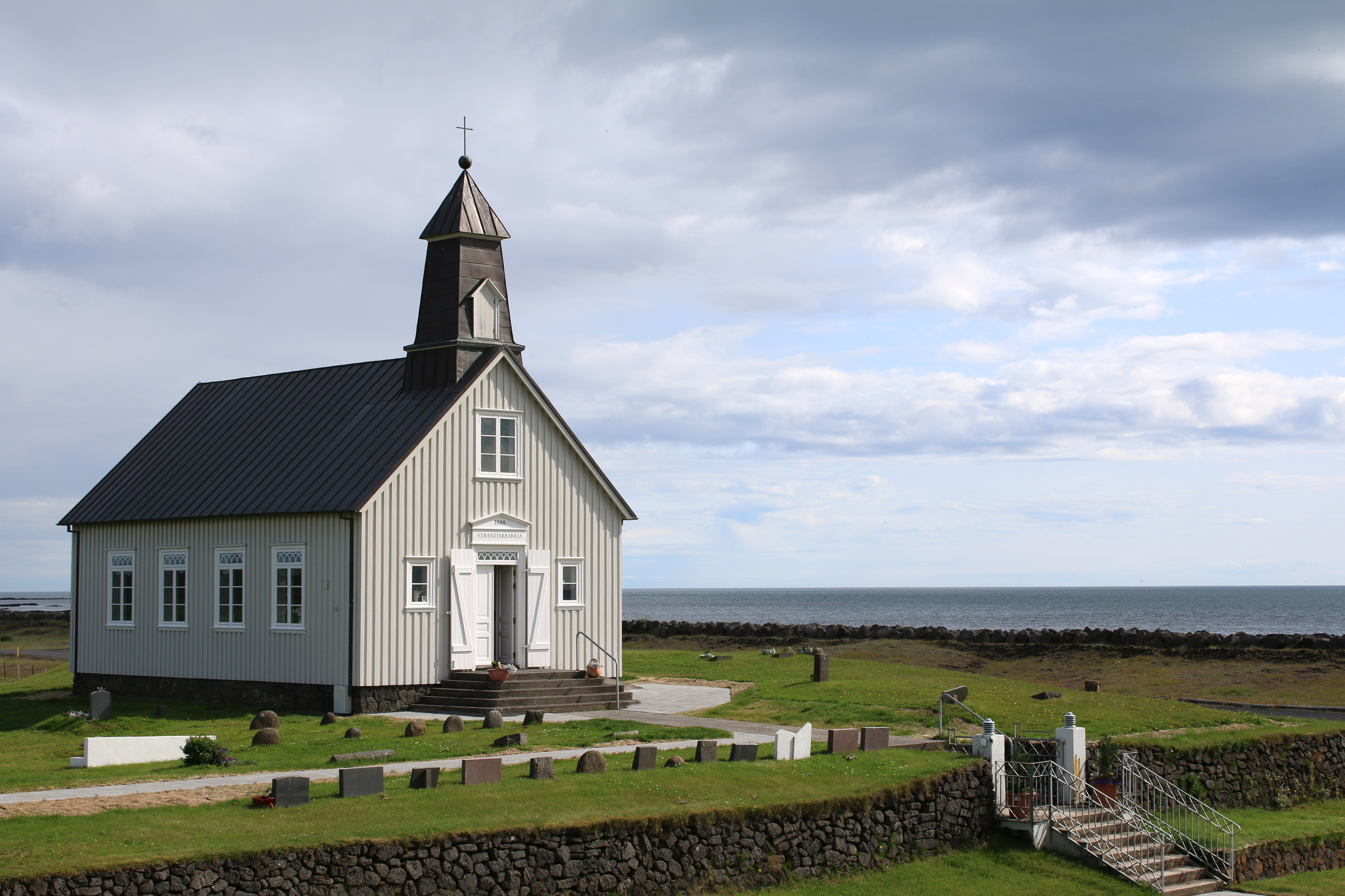 Church at Strandir, Iceland